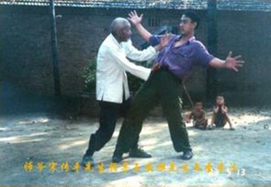 kungfu